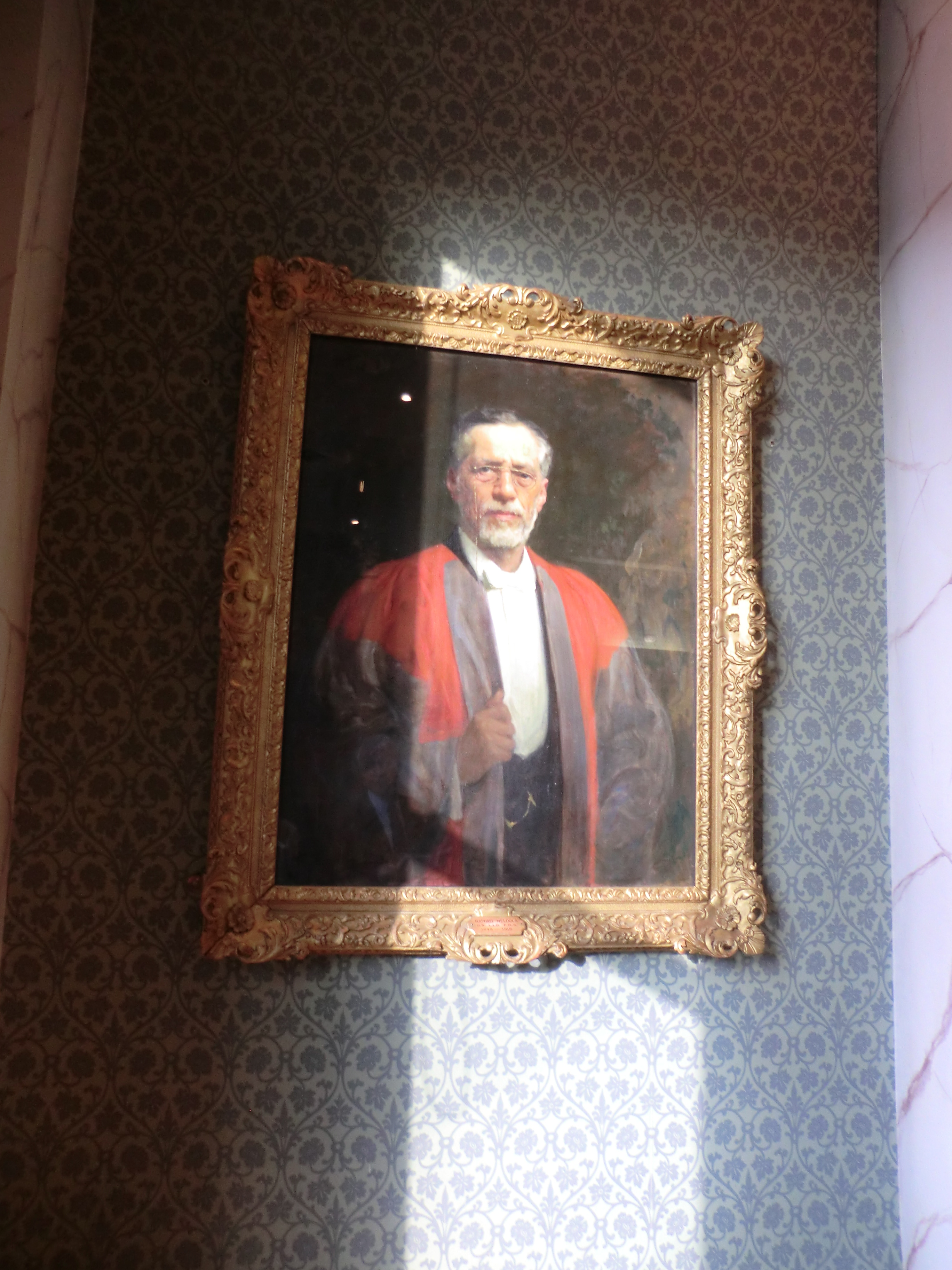 Portrait of Raphael Meldola attributed to Solomon Joseph Solomon (died 1927)